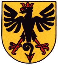 coat of arms district of Brig (Switzerland)